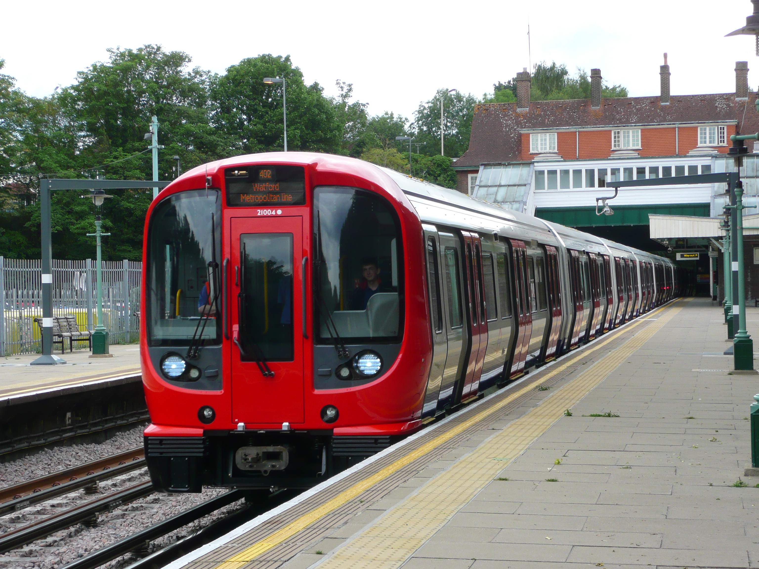 LUL S Stock arrives at Croxley station.